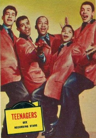 Trading card photo of Frankie Lymon and The Teenagers. In 1957, Topps gum cards issued a series of movie stars, television stars and recording stars. They were part of their recording stars cards. From left-Herman Santiago, Jimmy Merchant, Sherman Garnes, Frankie Lymon and Joe Negroni.